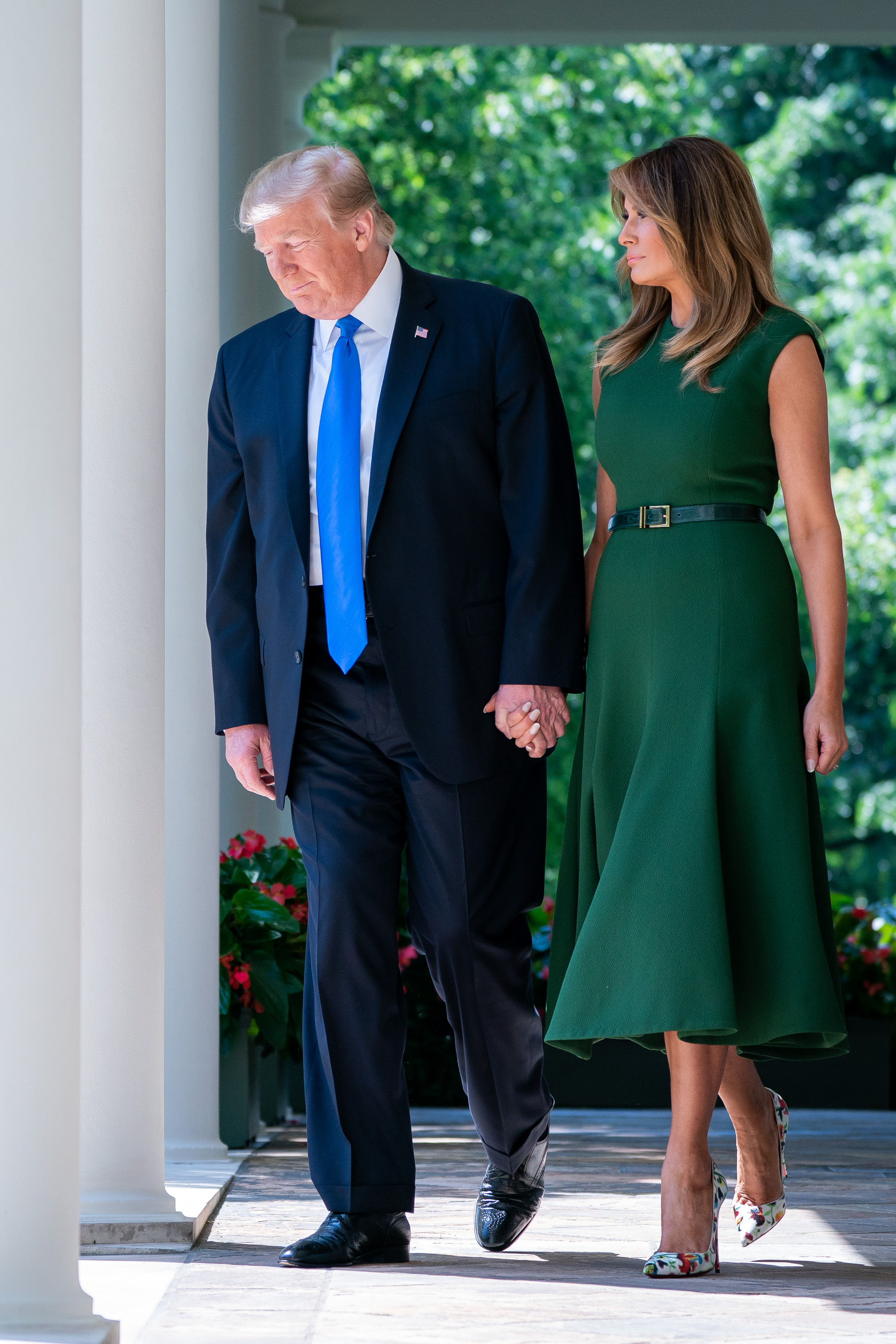 President Donald J. Trump and First Lady Melania Trump walk along the West Wing Colonnade Thursday, May 2, 2019, prior to attending the National Day of Prayer service in the Rose Garden of the White House. (Official White House Photo by Tia Dufour)